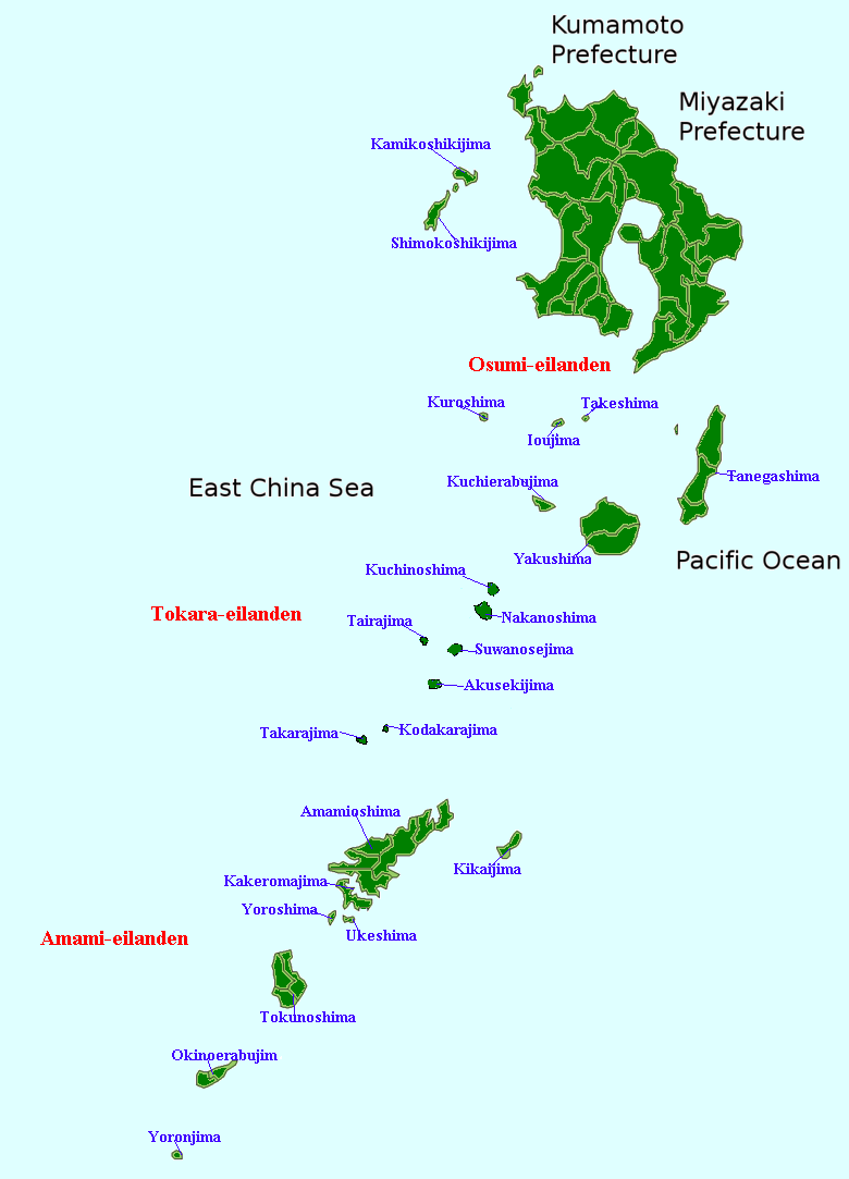 Map of the Satsunan Islands (Ōsumi Islands + Tokara Islands + Amami Islands), Ryukyu , Japan